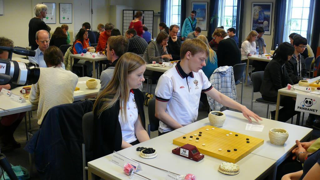 Svetlana Shikshina and Ilya Shikshin playing at the European Pair Go Champinship in Amsterdam in 2013